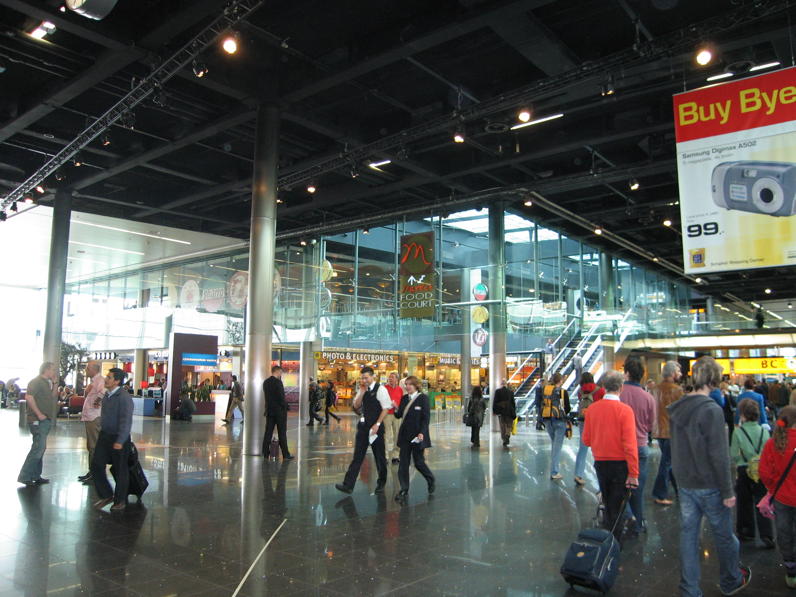 Schiphol Airport, Amsterdam, Netherlands